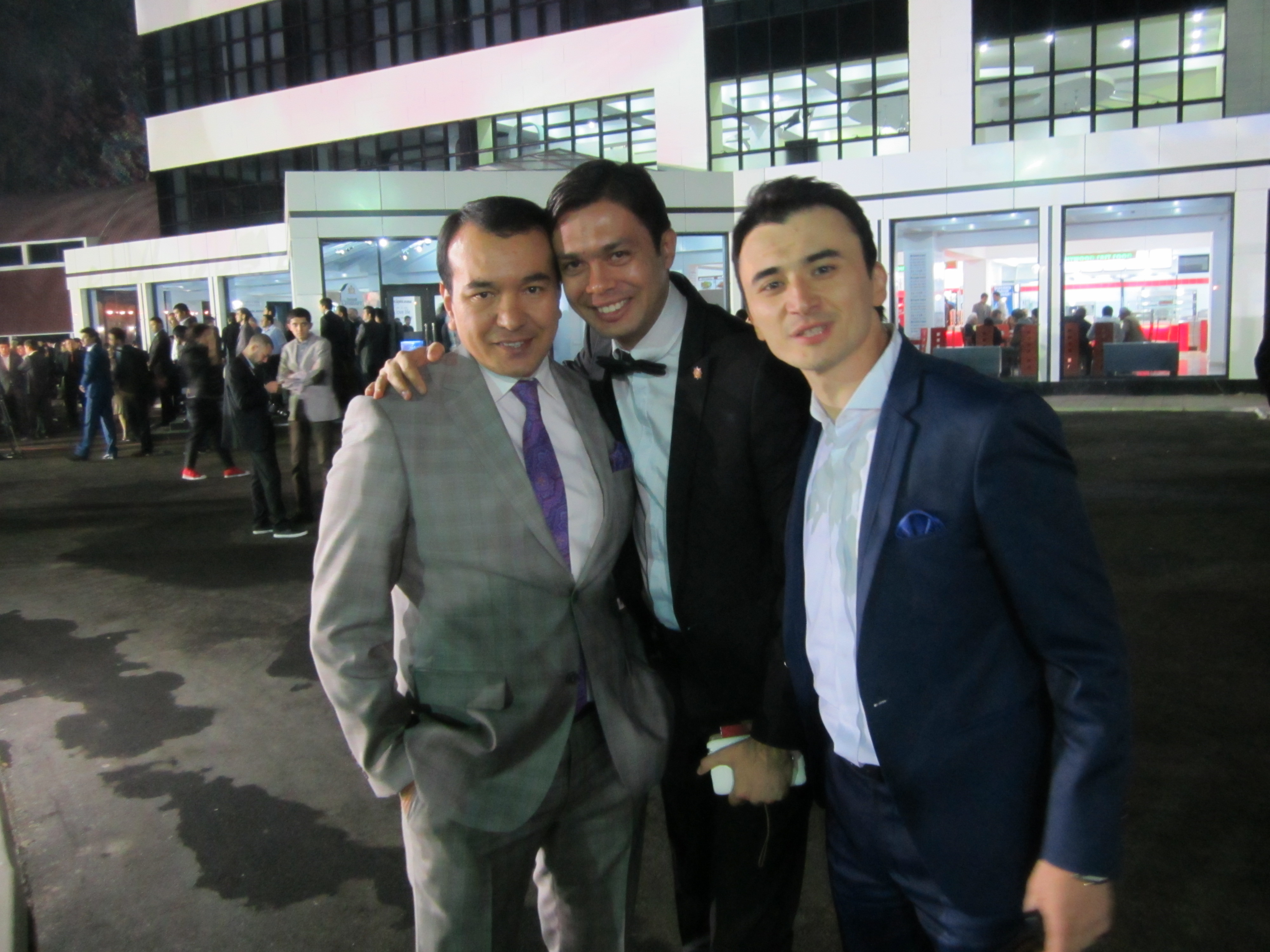 Ozodbek Nazarbekov, Otabek Mahkamov, and Ulugʻbek Rahmatullayev